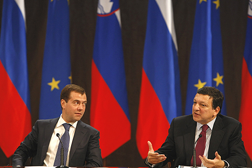 KHANTY-MANSIYSK. Joint press conference following the Russia - European Union summit. With Chairman of the European Commission Jose Manuel Barroso.